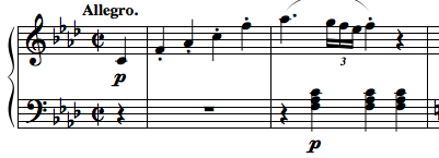 Excerpt from Beethoven's Sonata No.1 (Op. 2, No. 1)